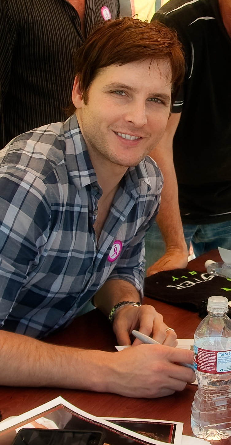 Actor Peter Facinelli.